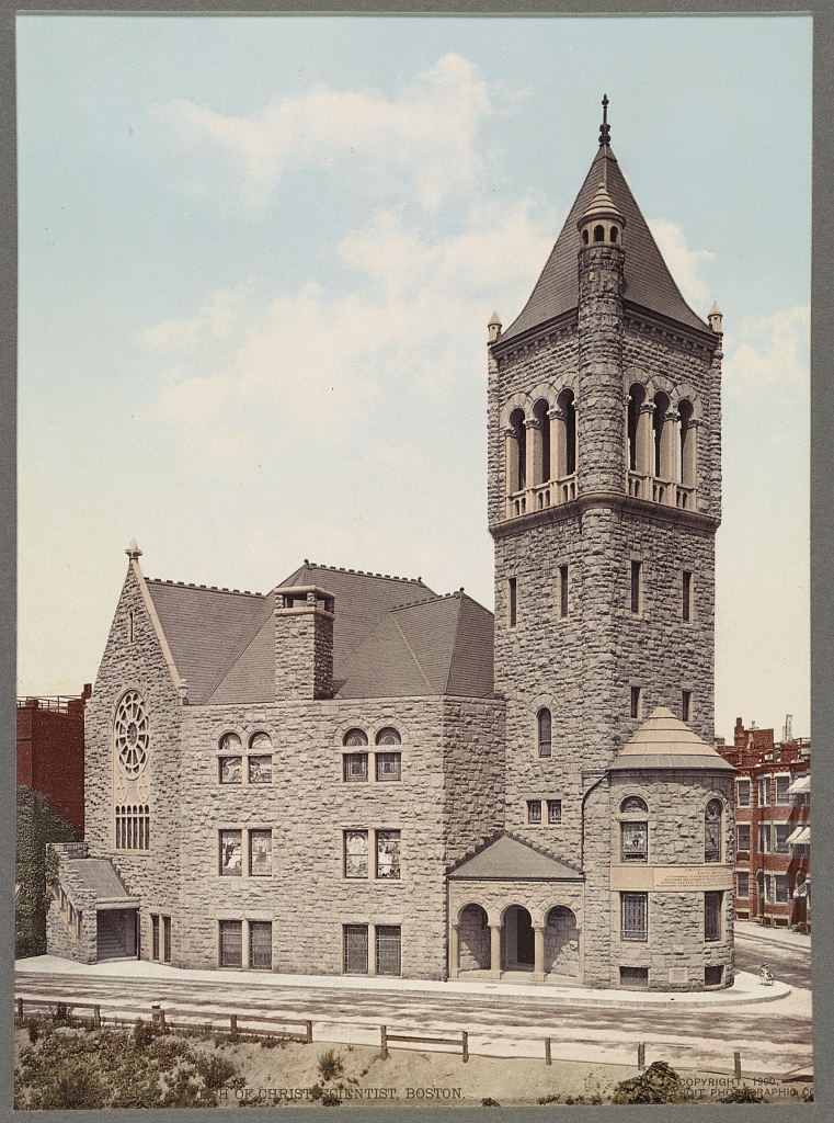 A postcard published by the Detroit Photographic Company.